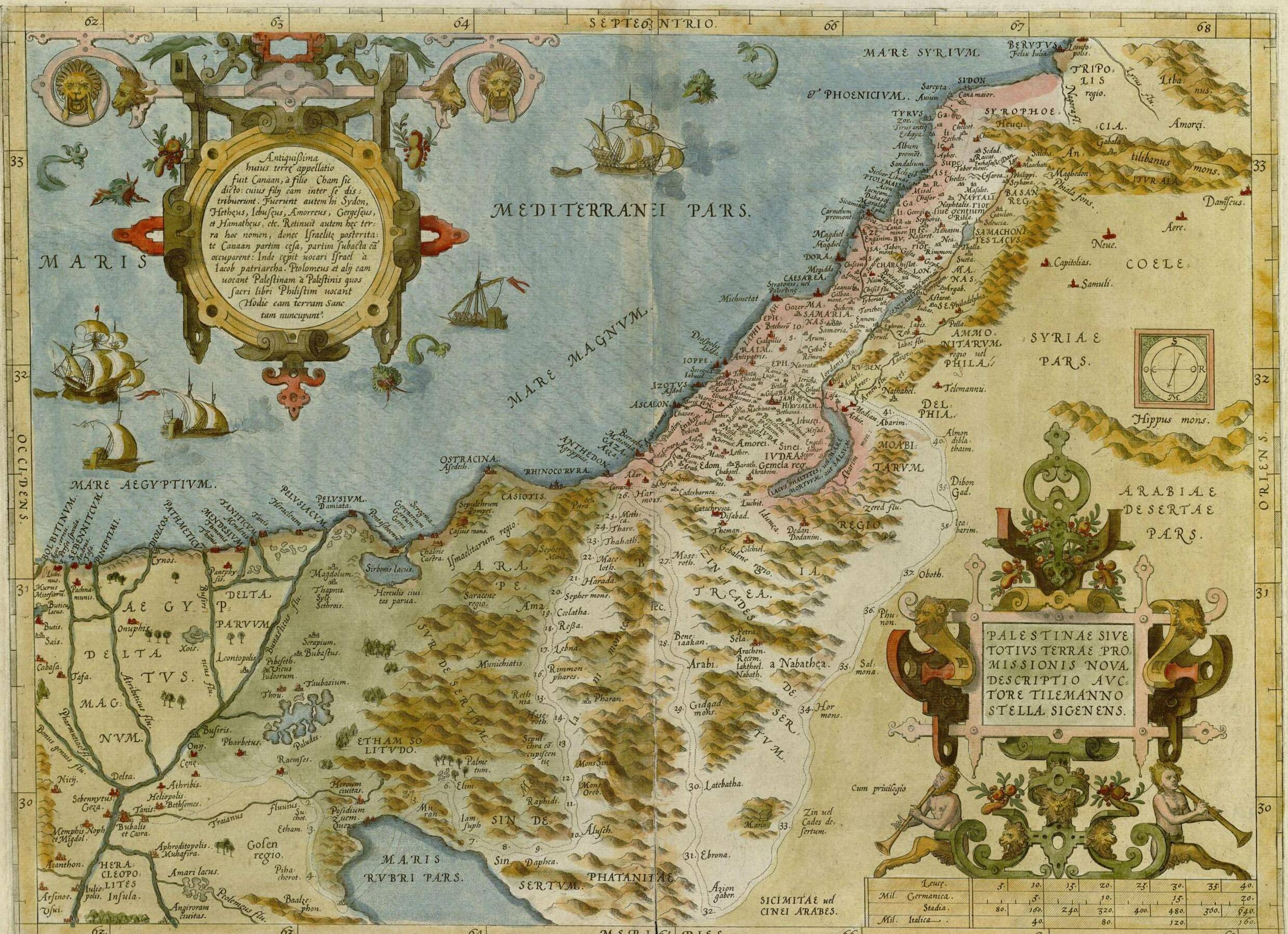 The first Palestine map of Ortelius